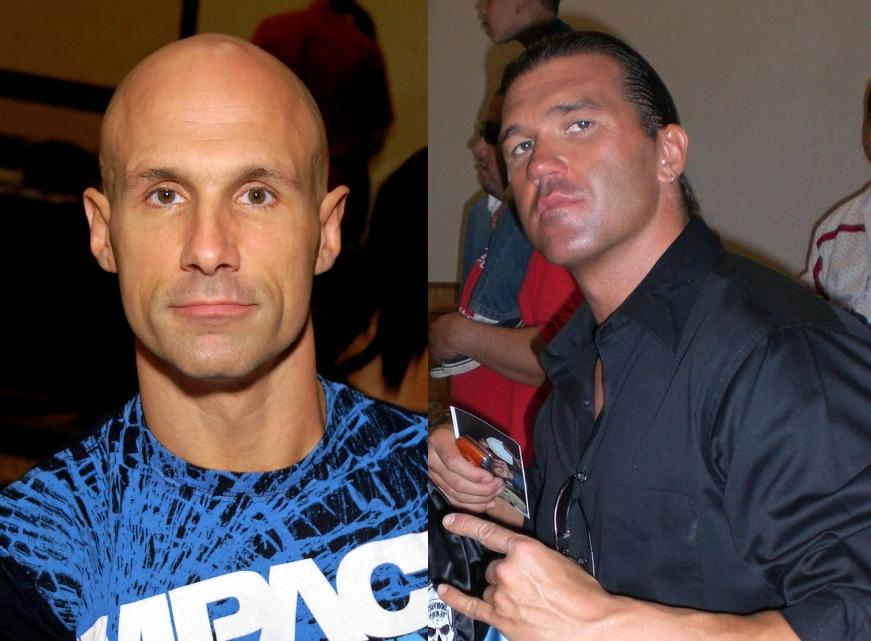 Professional wrestlers Christopher Daniels and Kazarian, the TNA World Tag Team Champions.